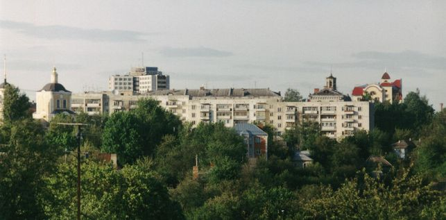 Sight of Bryansk City. Pokrovskaya Gora.